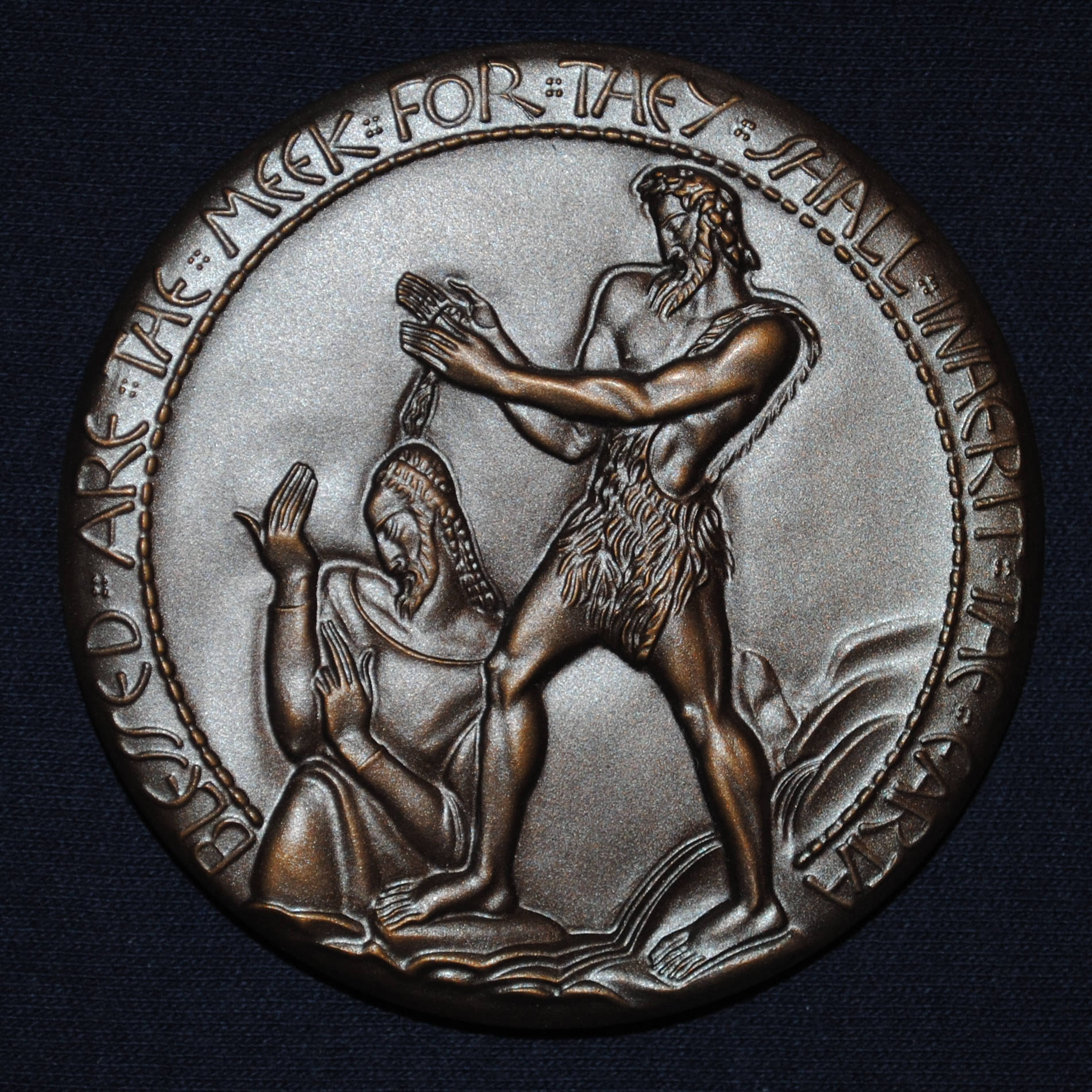 pending